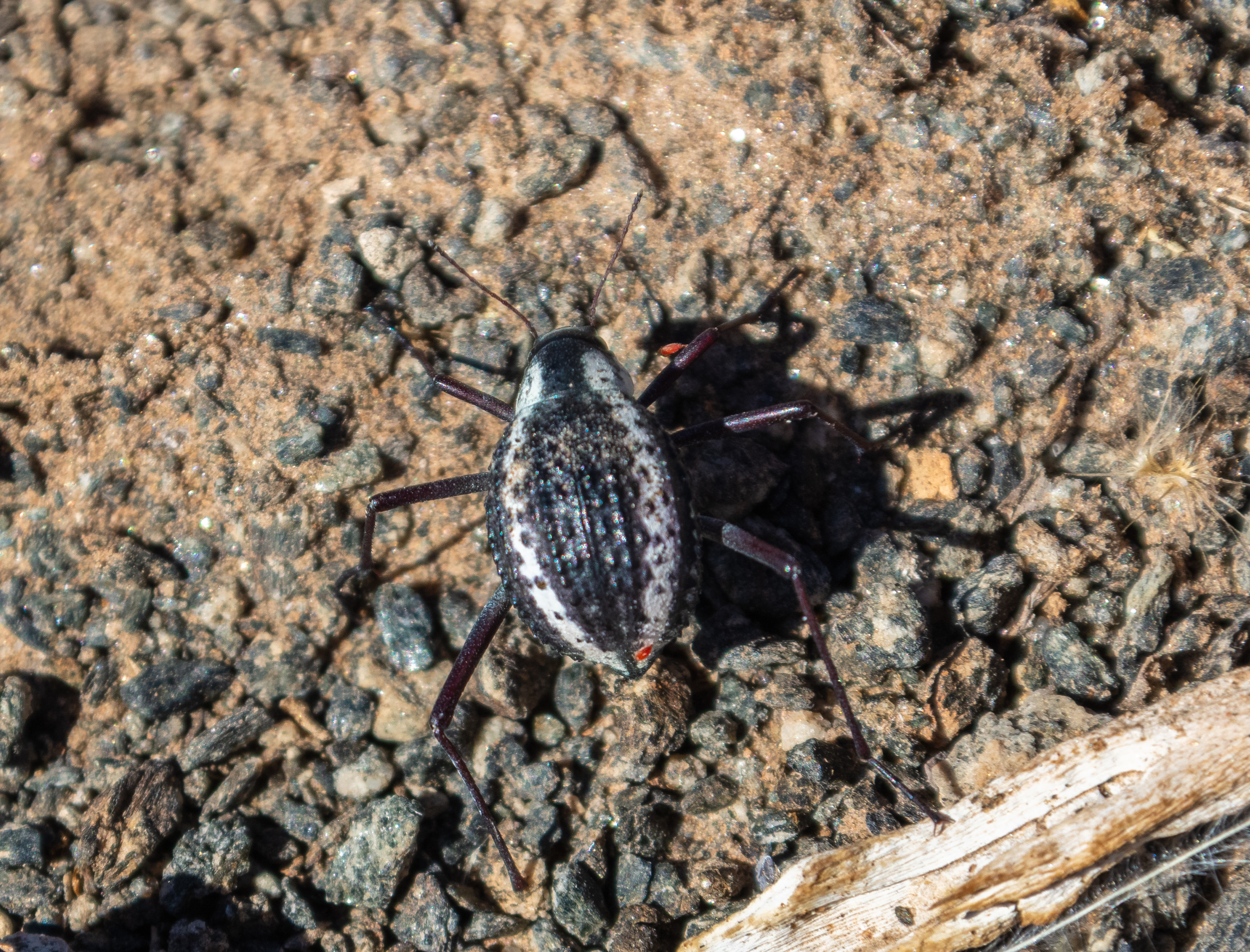 Stenocara gracilipes, Namib-Naukluft National Park, Namibia